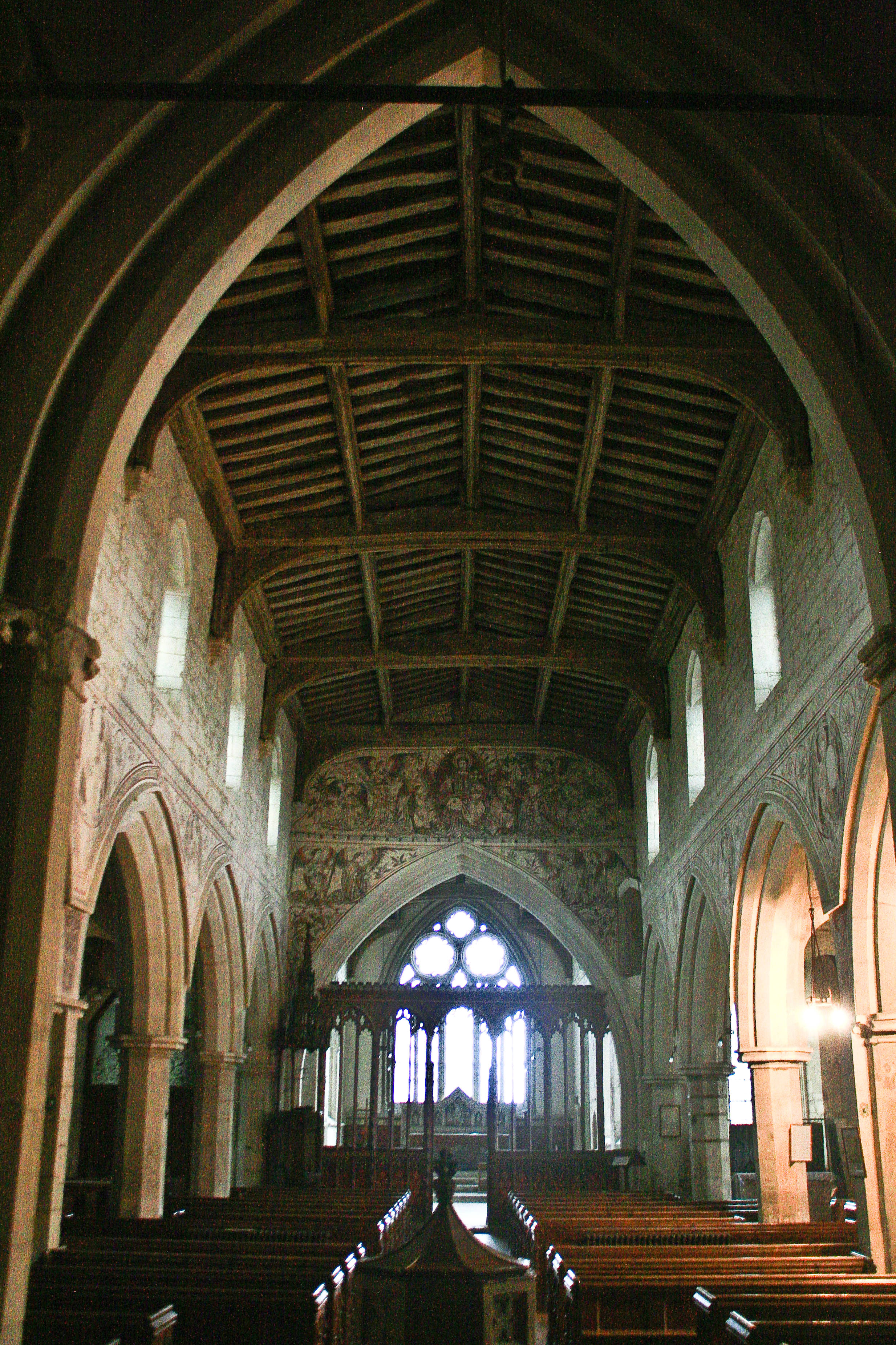 St Mary's Church Edlesborough, Buckinghamshire, England, UK